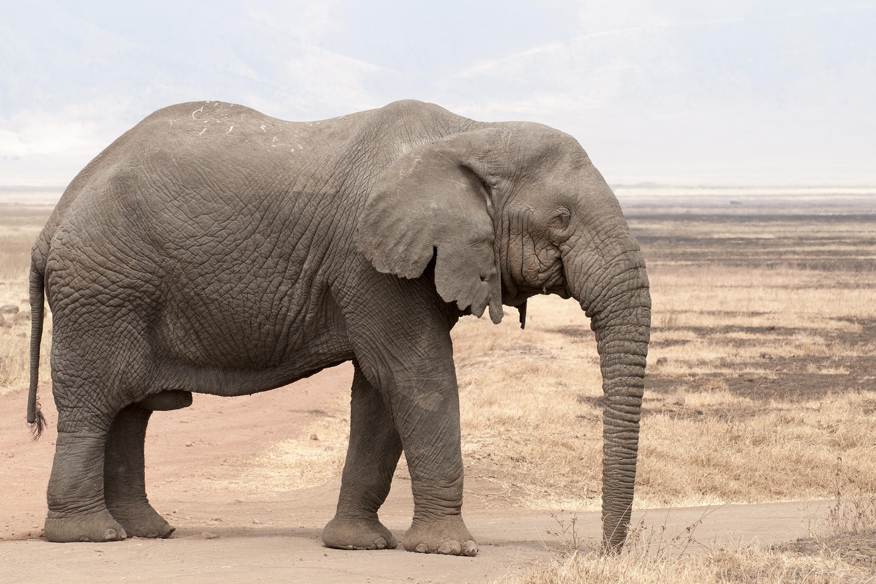 Old bull elephant in the Ngorongoro crater